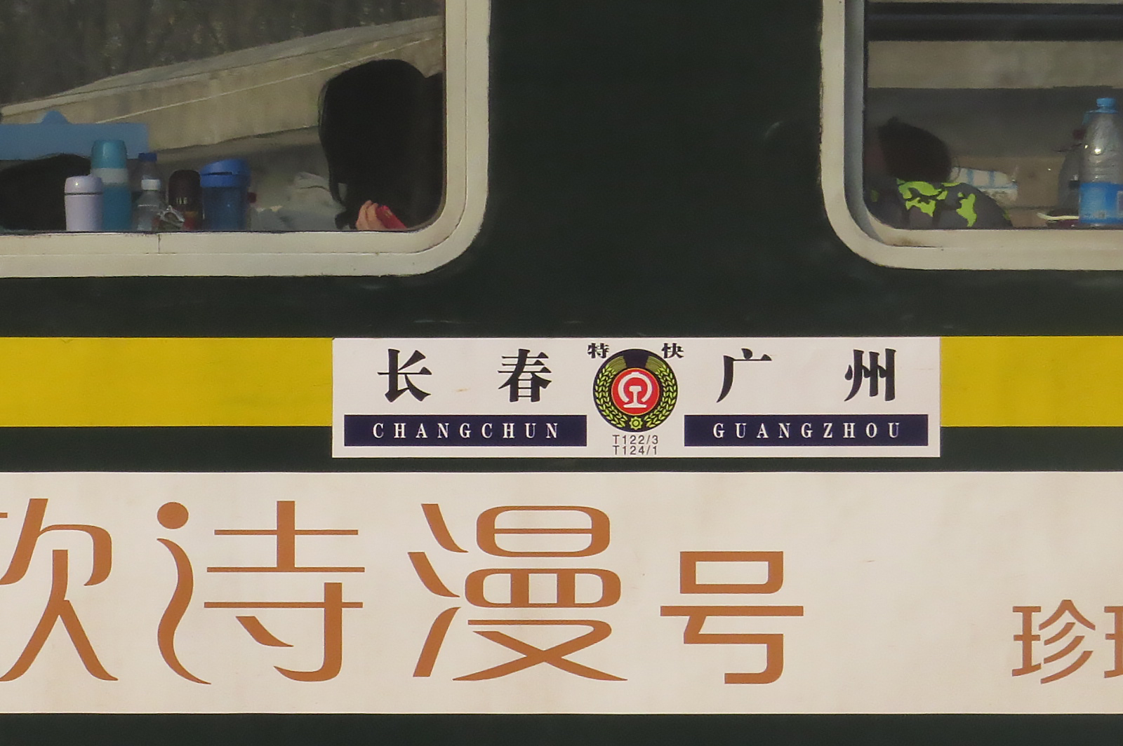 Almost green...we'll never see this train in Beijing after January 10, 2016, because it will be diverted to new Tianjin-Baoding Railway.